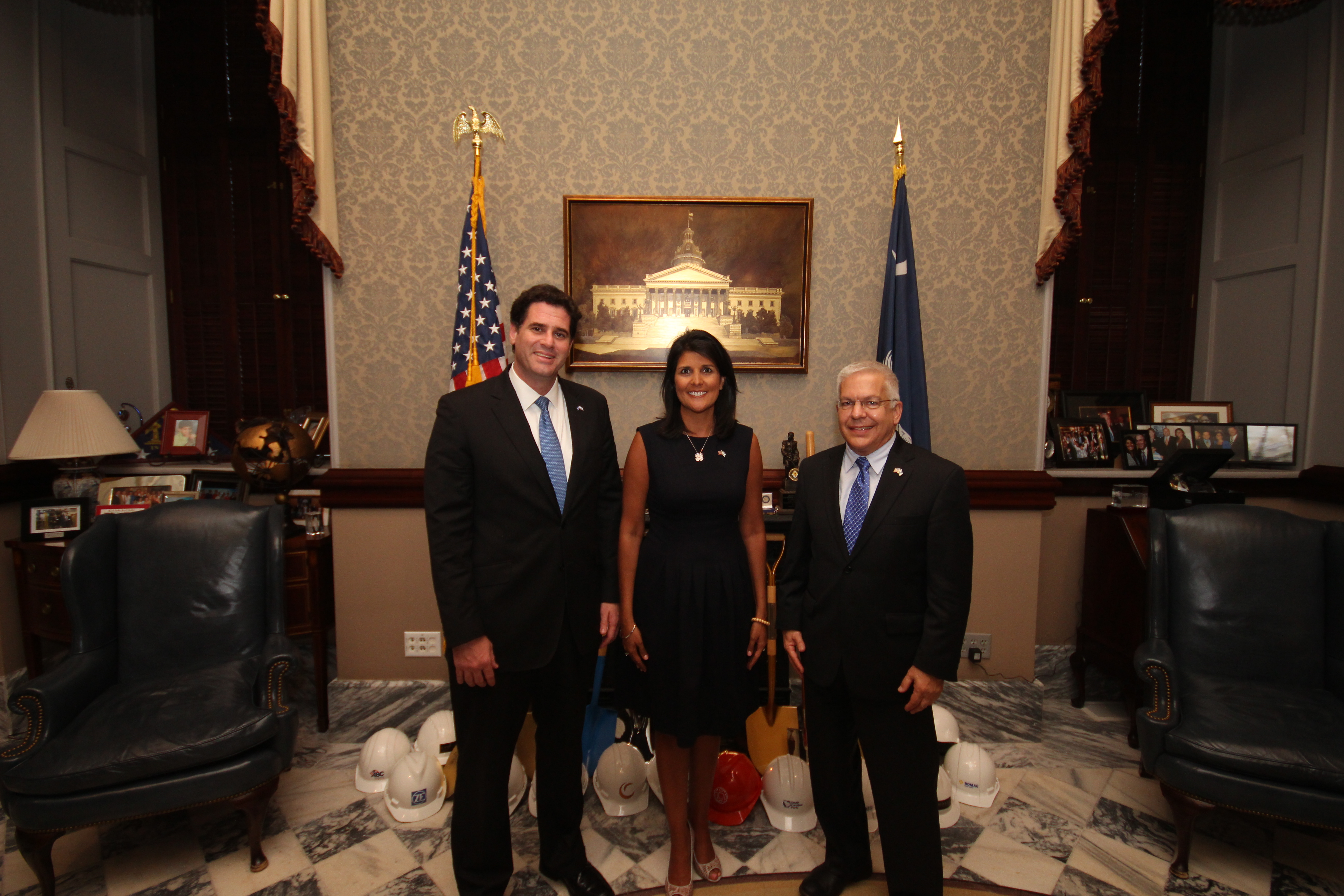 May 28, 2014 Governor Nikki Haley meets with Israeli Ambassador Ron Dermer. (Official Governor's Office Photo by Zach Pippin) Nikki Haley meets with Ron Dermer